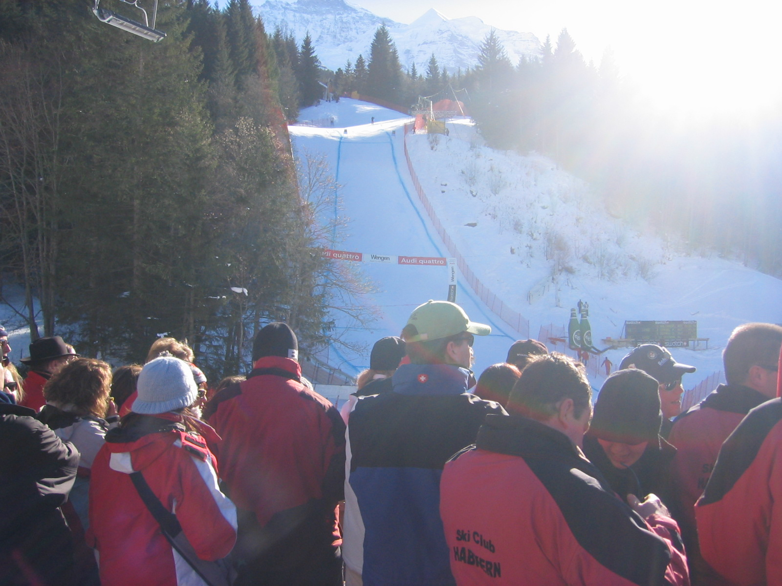 Wengen